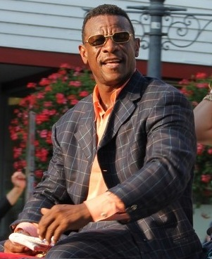 Rickey Henderson at the 2011 Baseball Hall of Fame induction parade.